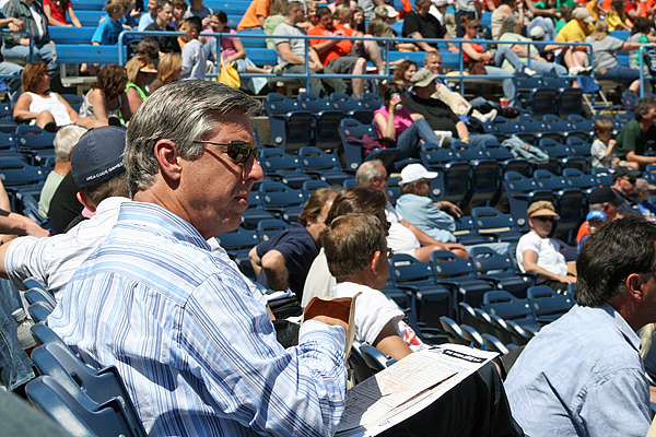 Detroit Tigers GM Dave Dombrowski in 2010.